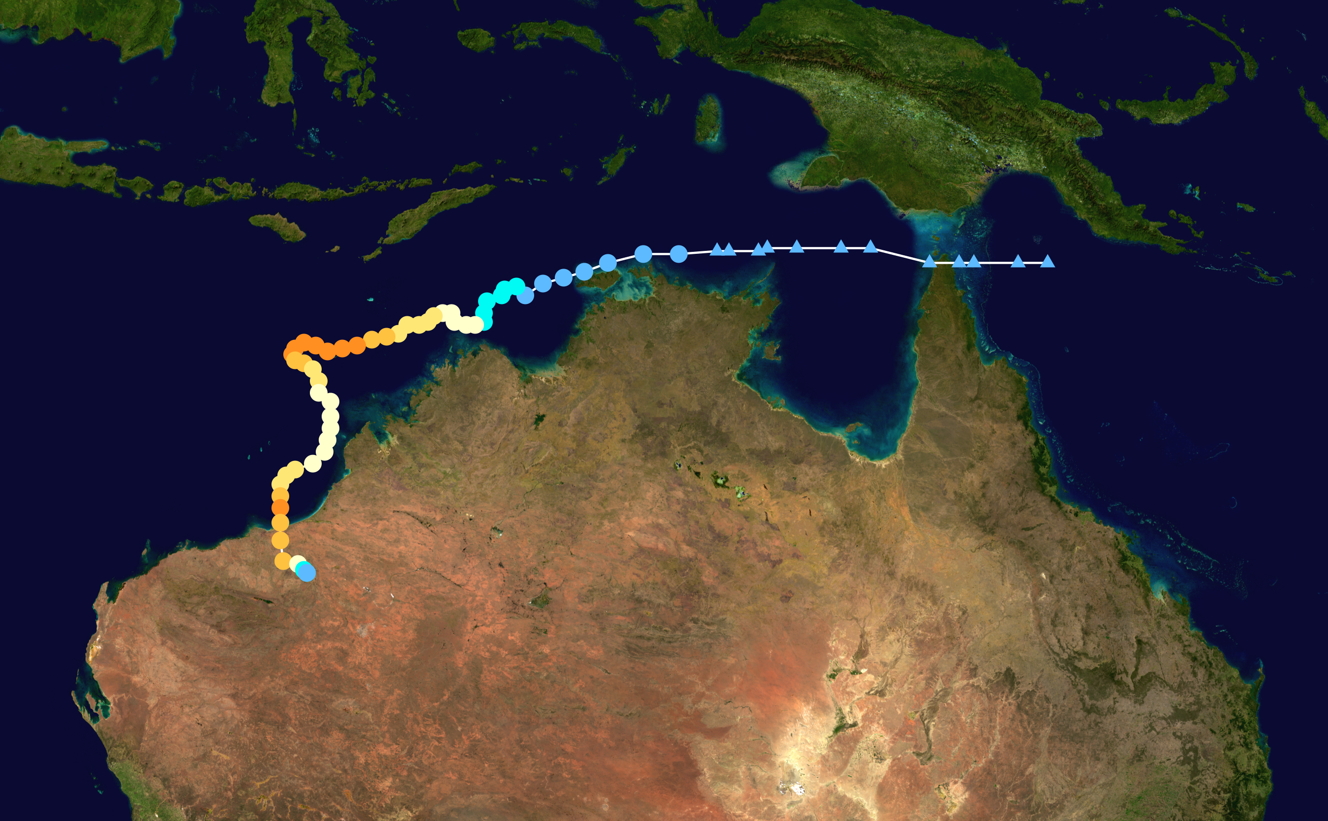 Cyclone Fay (2004) track. Uses the color scheme from the Saffir-Simpson Hurricane Scale.